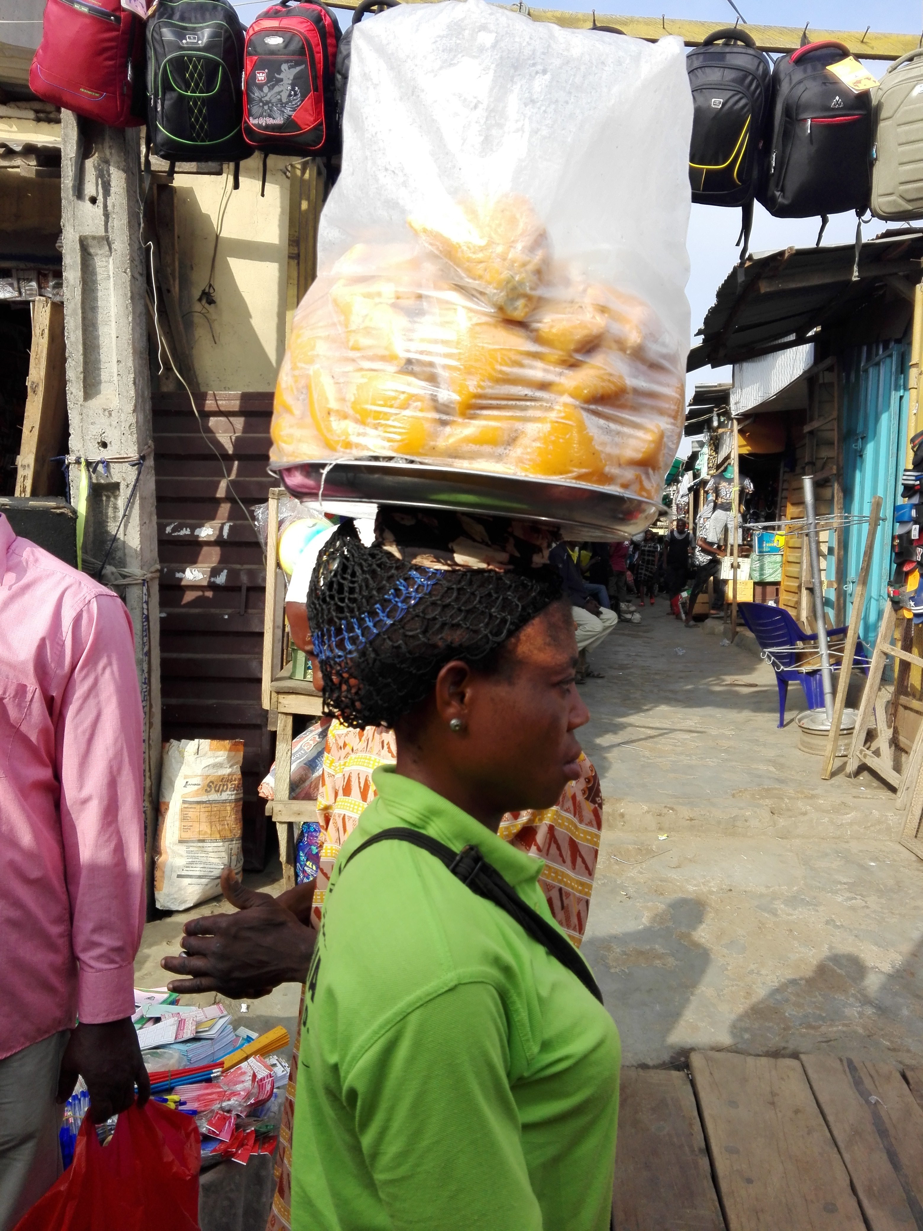 This is an image of "African people at work" from Nigeria